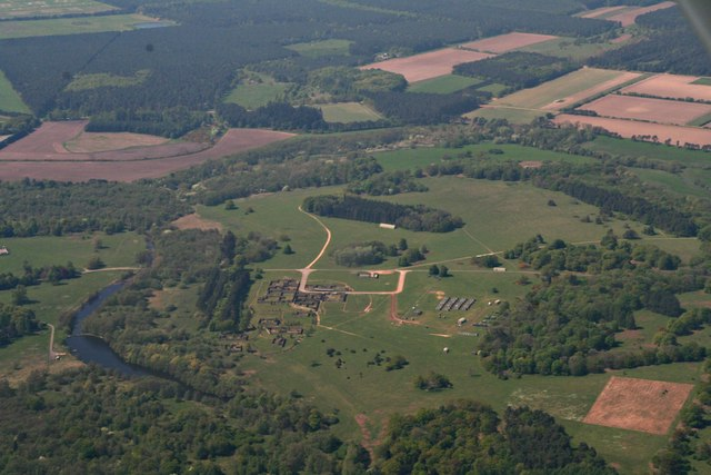 Aerial view (looking westwards) of the parkland of the former Buckenham Tofts House, Norfolk, 7 miles north of Thetford, since 1942 situated within the Stanford Training Area, a 30,000 acre military training ground closed to the public. The mansion house re-built in 1803 and demolished in 1946, stood to the immediate left (south) of the landscaped serpentine lake formed by damming the River Wissey. Army training buildings are visible, including a mock-up of an Afghan village.